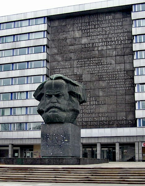 Karl Marx memorial in Chemnitz; called "Nischel"